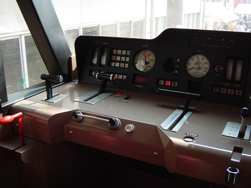 JR-KAMOTSU (Japan Freight Railway Company) type EF210 electric locomotive cockpit